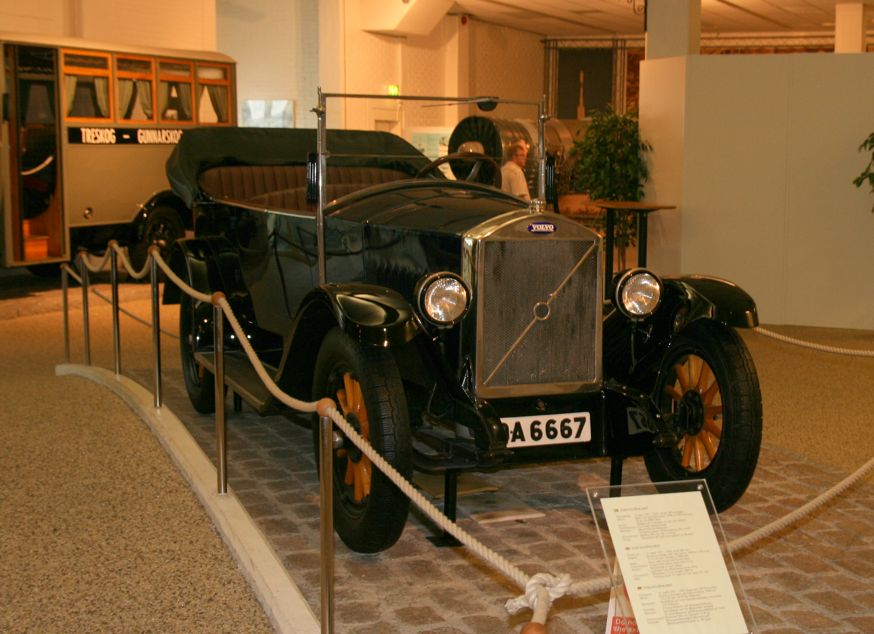 1927 Volvo ÖV4